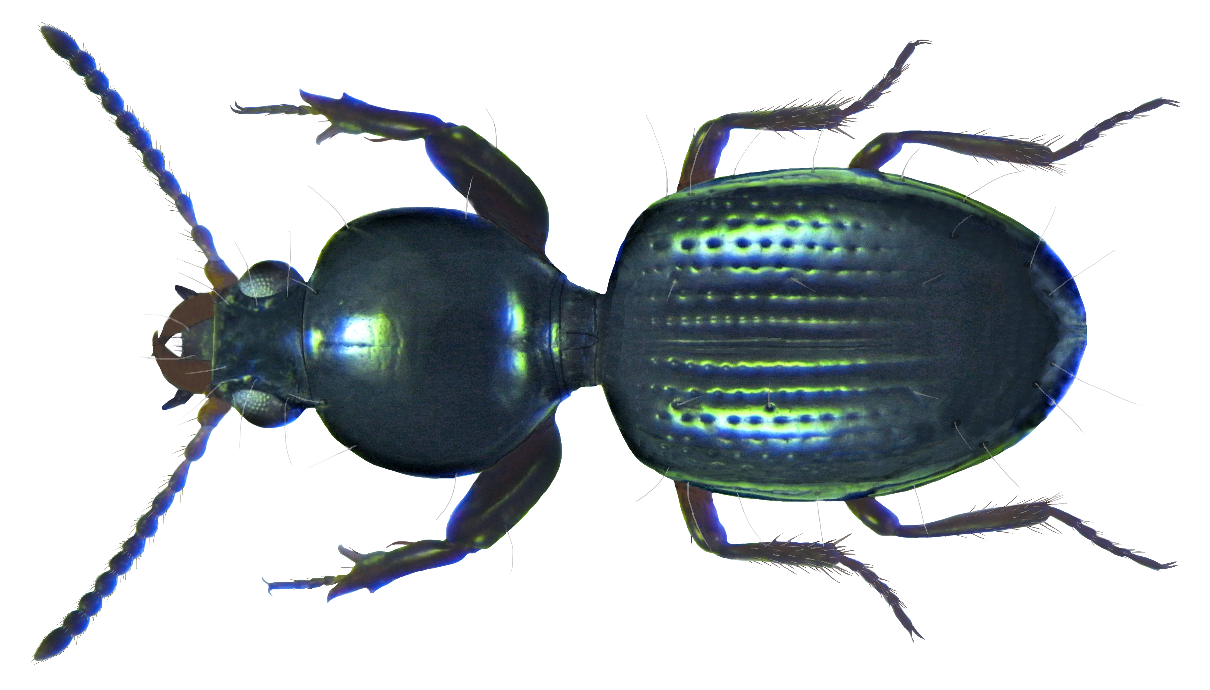 Dyschiriodes globosus (Herbst, 1784) Syn. Dyschirius (Eudyschirius) globosus Herbst, 1784 Family: Carabidae Size; 2,5 mm (2,4-3,1 mm) Origin: palearctic distribution Location: Germany, Bavaria, Upper Franconia, Naila, valley of the Culmitz leg.U.Schmidt, 30.IV.2005; det. P.Bulirsch, 2011 Photo: U.Schmidt, 2013